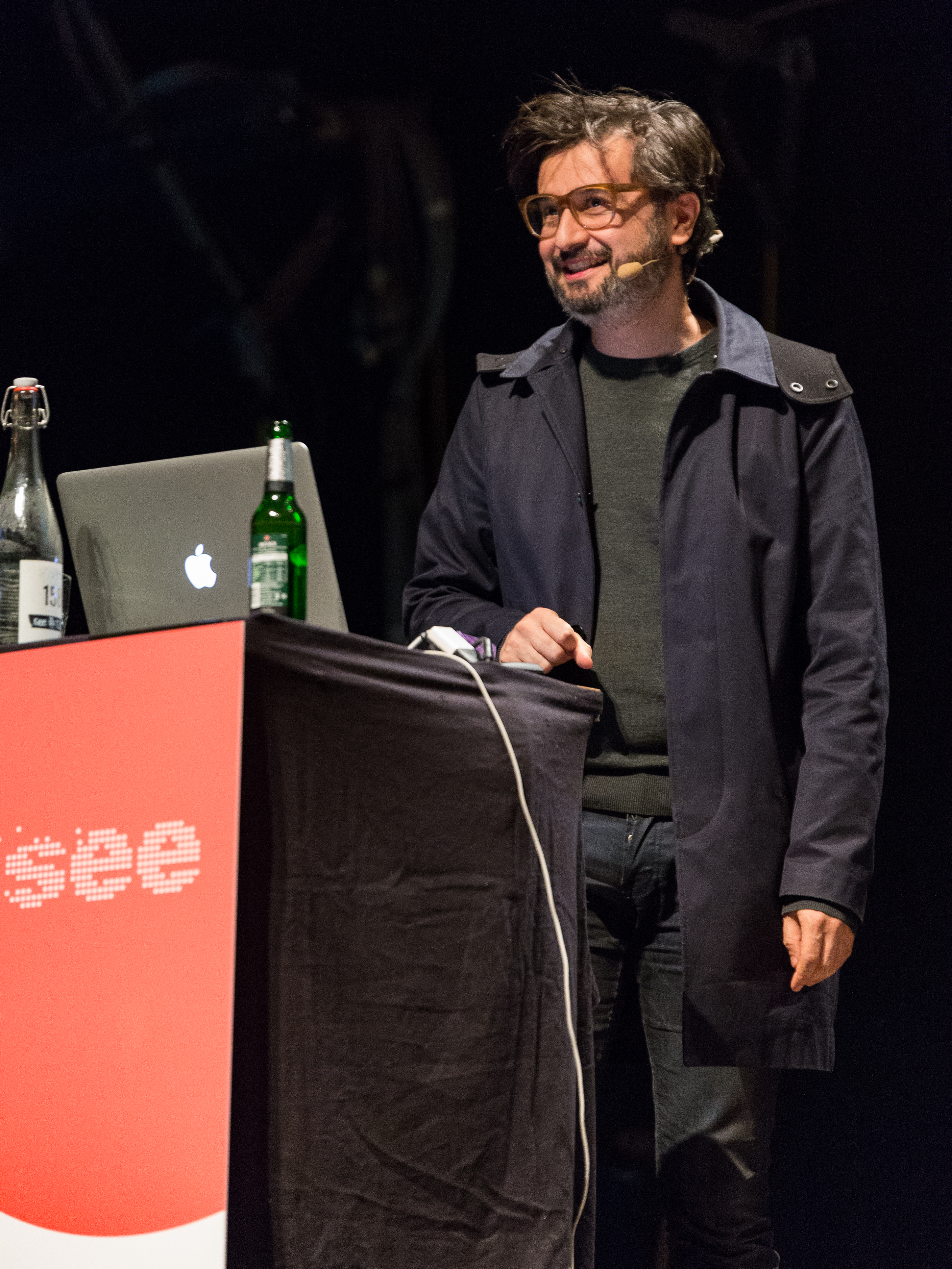 Mario Lombardo at the See-Conference 2017 in the Schlachthof Wiesbaden